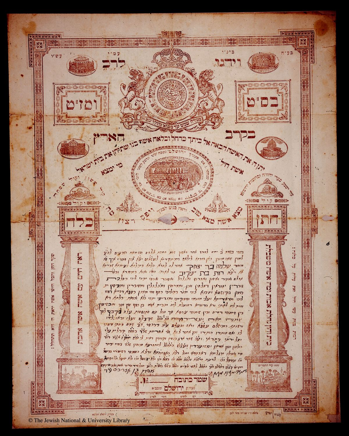 Ketubah from The Ketubot Collection of the National Library of Israel